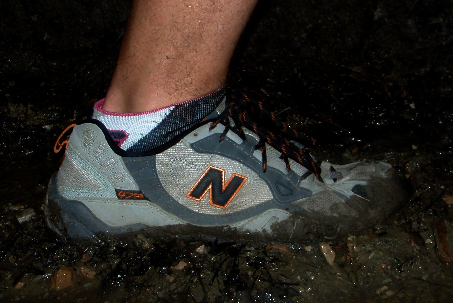 Trail running shoes New Balance v.470